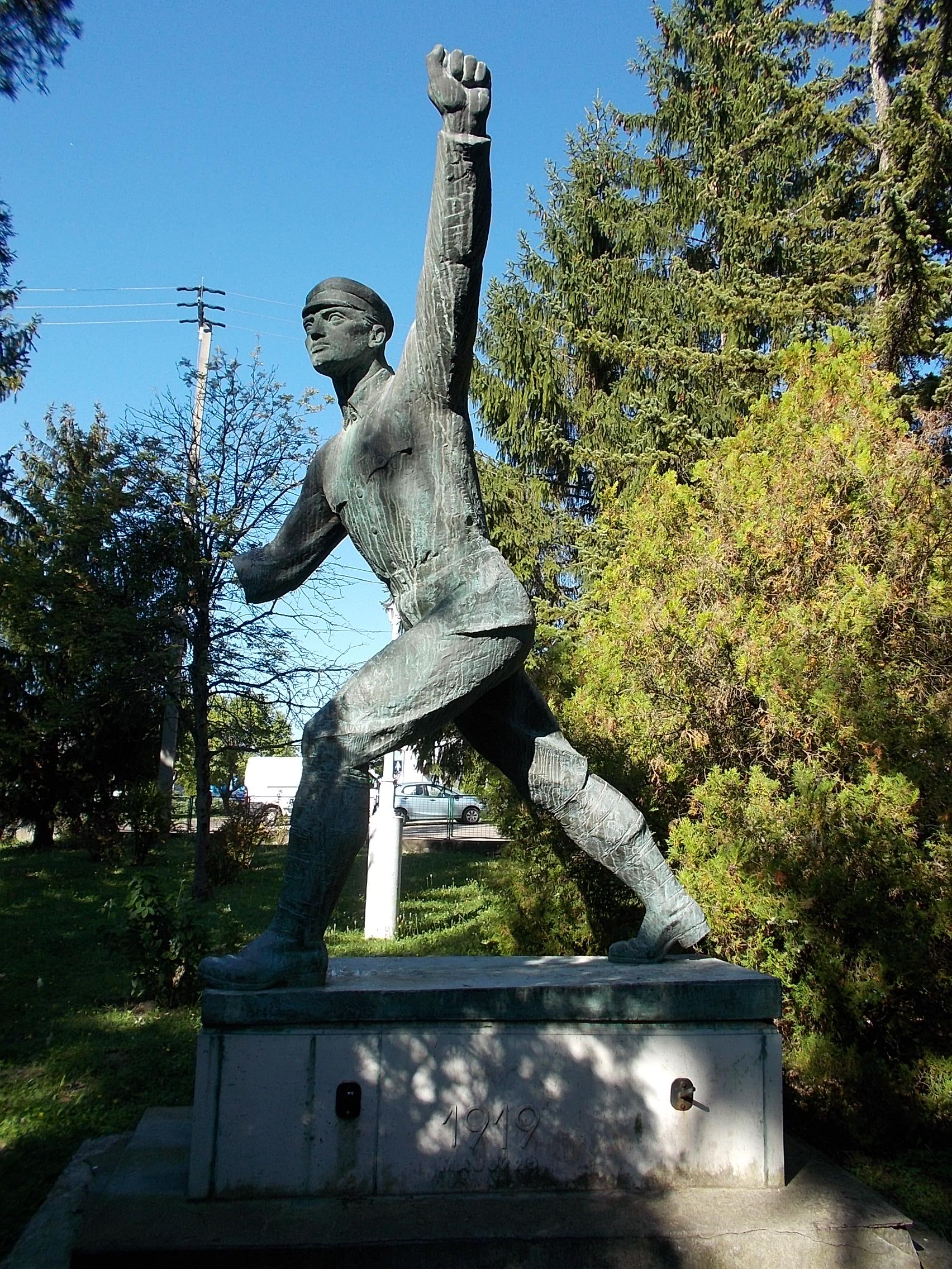 Hungarian Soviet Republic Statue and Monument, Socialist Realist (1949-58) style. Bronze on concrete or terrazzo base. - IV. Béla út (Route 2506), Bélapátfalva, Heves County, Hungary.